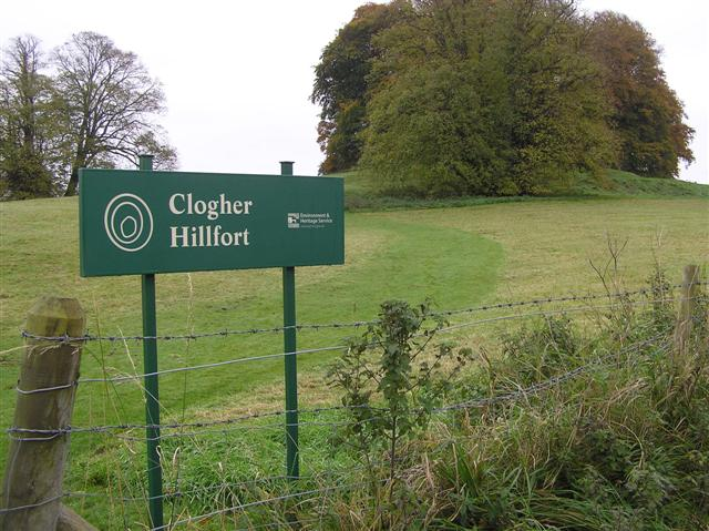 Clogher Hillfort More adequately shown here